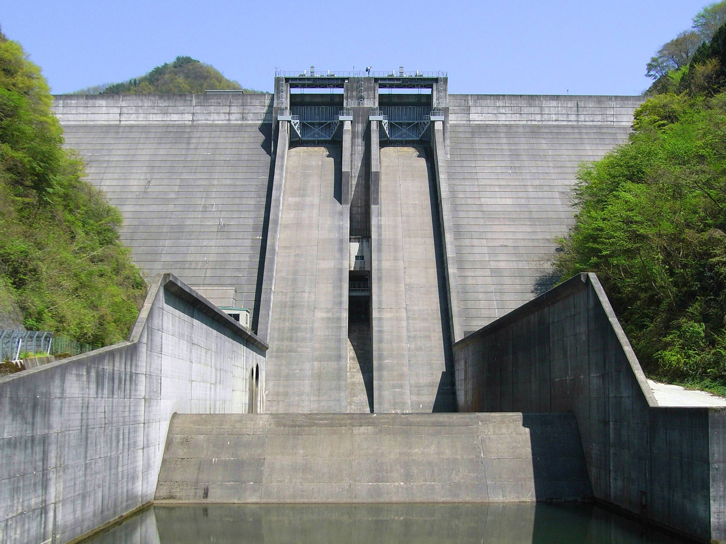 Matanogawa Dam.